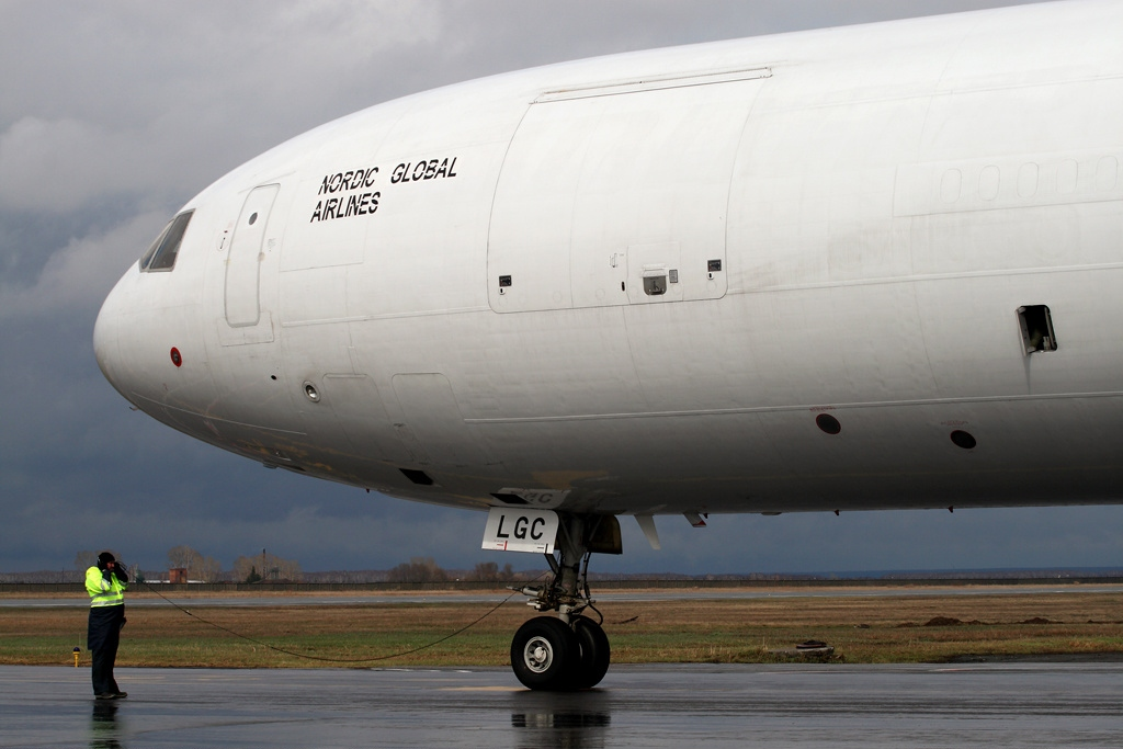 First transit landing in Novosibirsk. NGB 8712 Hong Kong - Helsinki. Twice in week flights in OVB now. Ex Finnair (passenger fleet) and Finnair Cargo. Nordic started operations in August 2011.